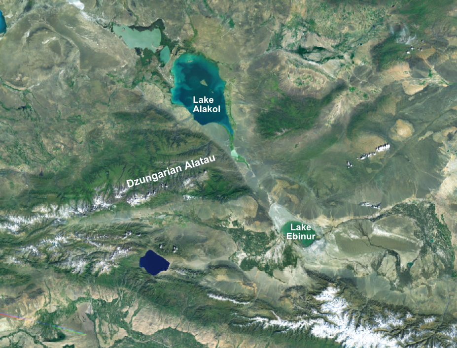 Labelled screenshot from NASA WorldWind software of the Dzungarian Gate area